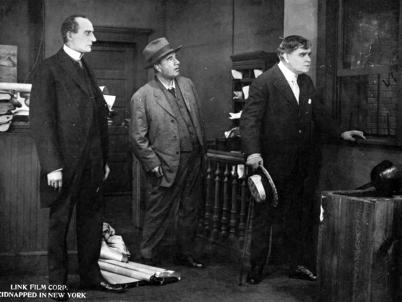 Lobby card for the American drama short film Kidnapped in New York (1914). Barney Gilmore (1865–1949) repeated his stage role as Detective Dooley.